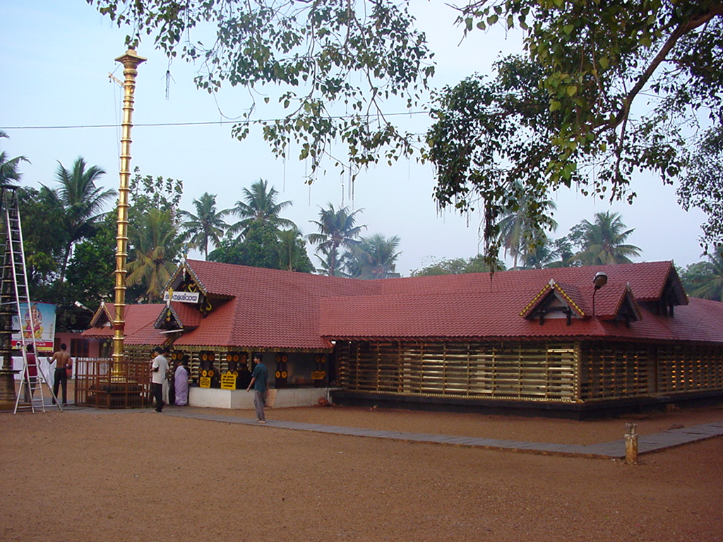 I have taken it personally for public use and anyone can use it for personal or public use